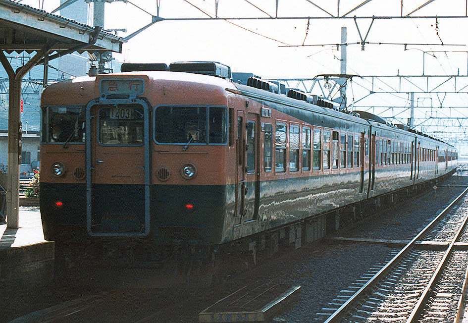 Express train Alps by JNR 165 series EMU, at Okaya Station